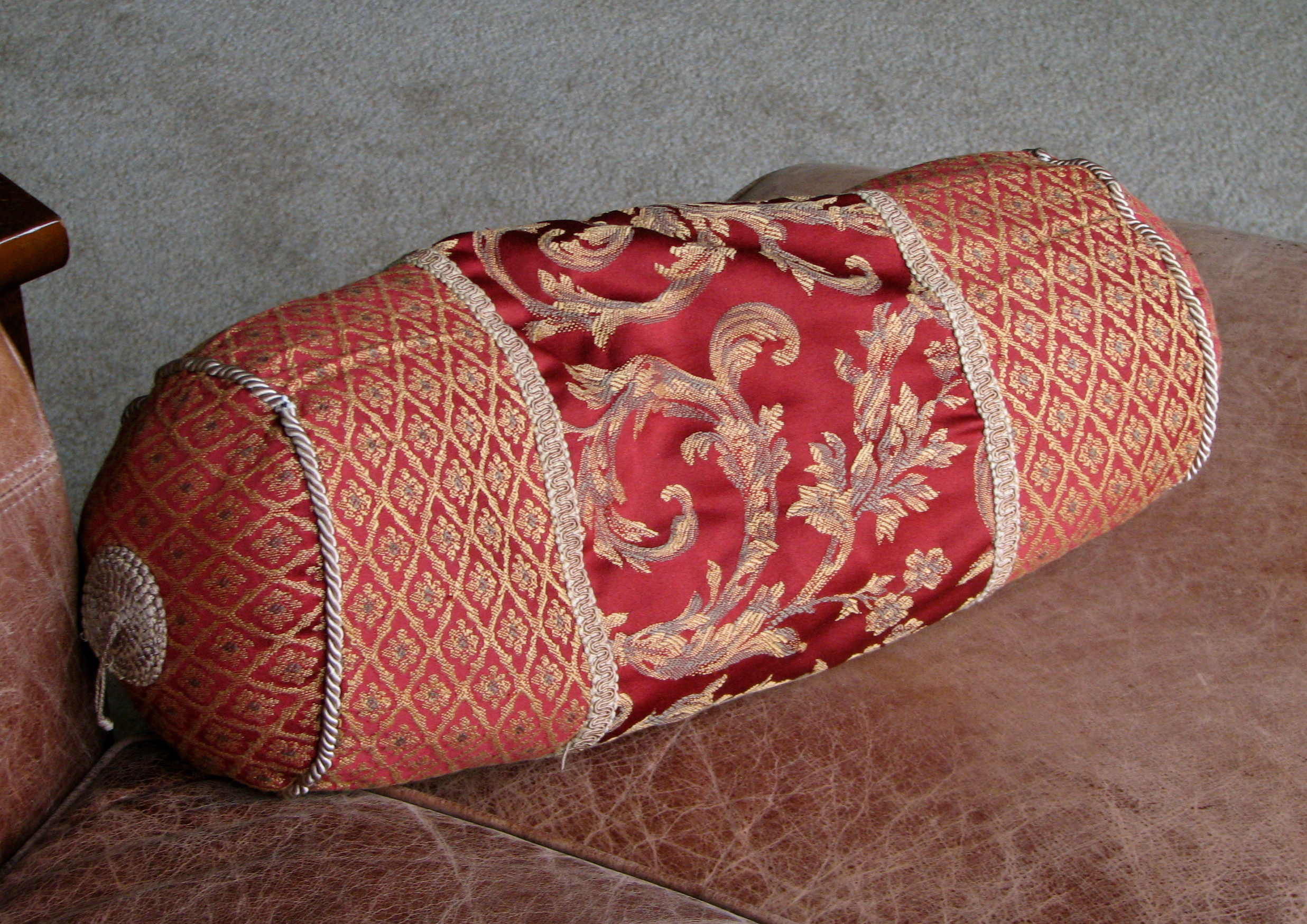 A typical throw pillow (cushion) found in a suburban home. Note the barely visible pubie in the the upper-right quadrant of the cushion.